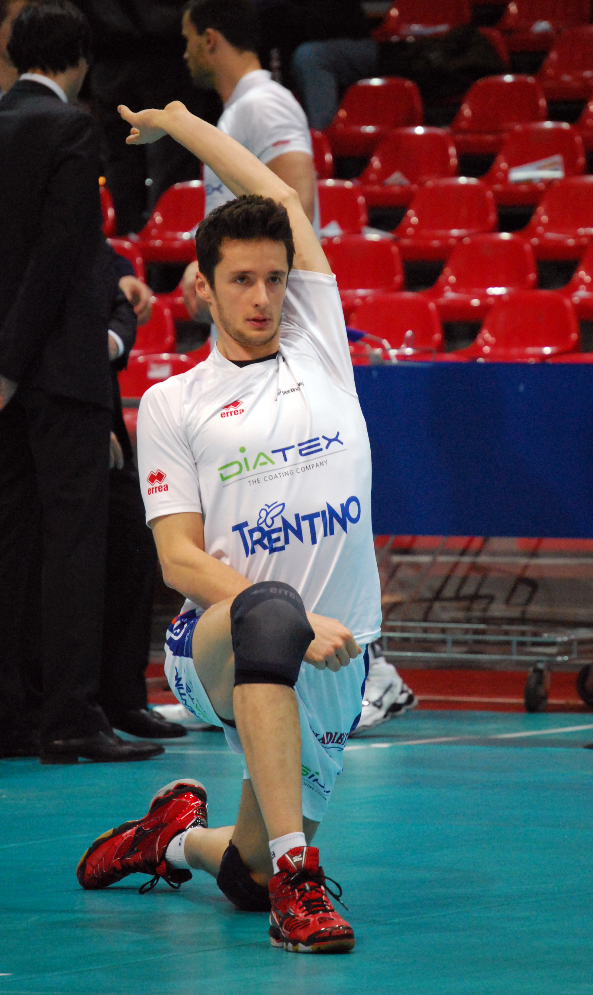 I took this photo during a volleyball match in Piacenza